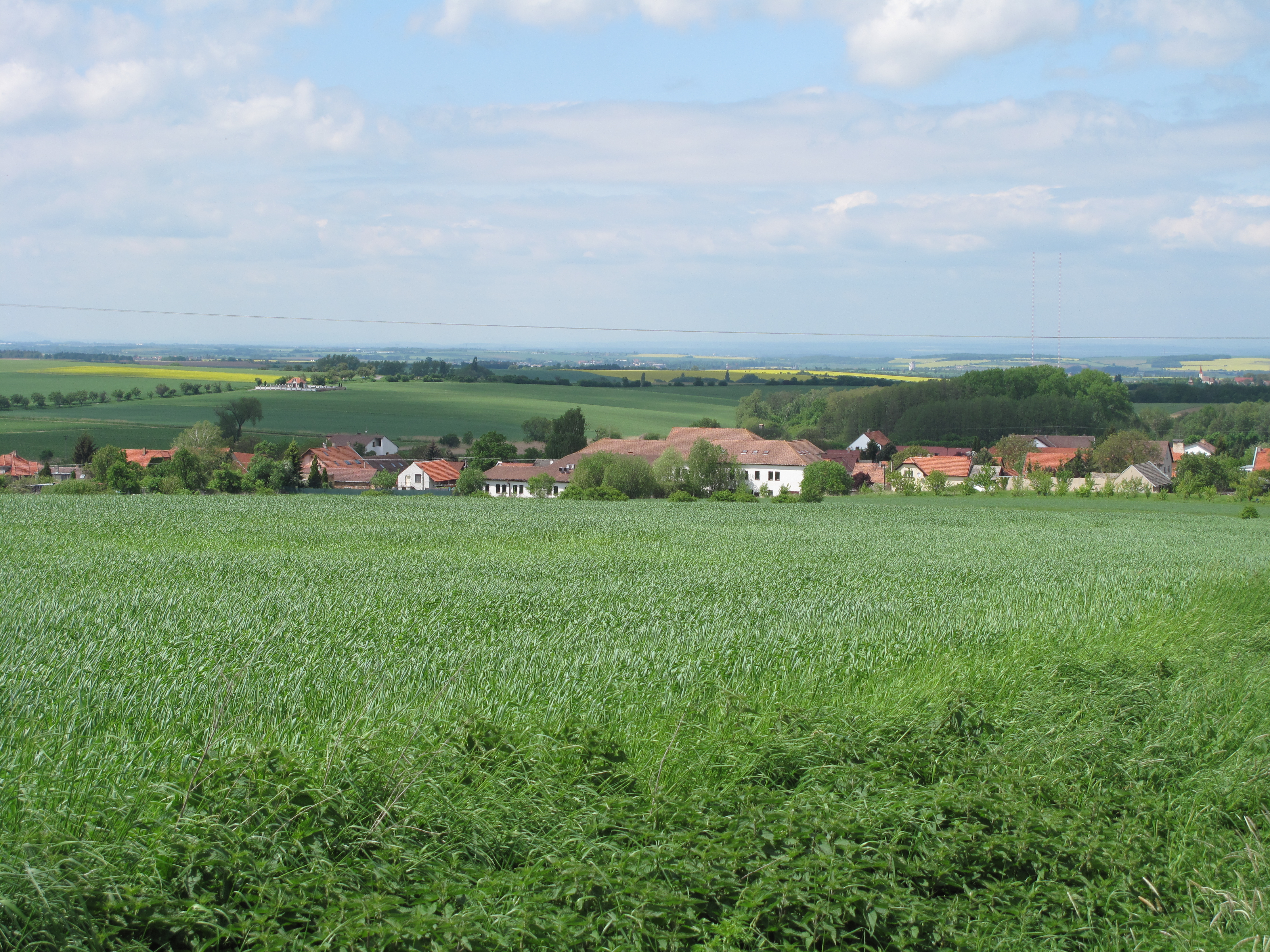 Dobré Pole village (Vitice municipality) as seen from the south, Kolín District, Czech Republic.